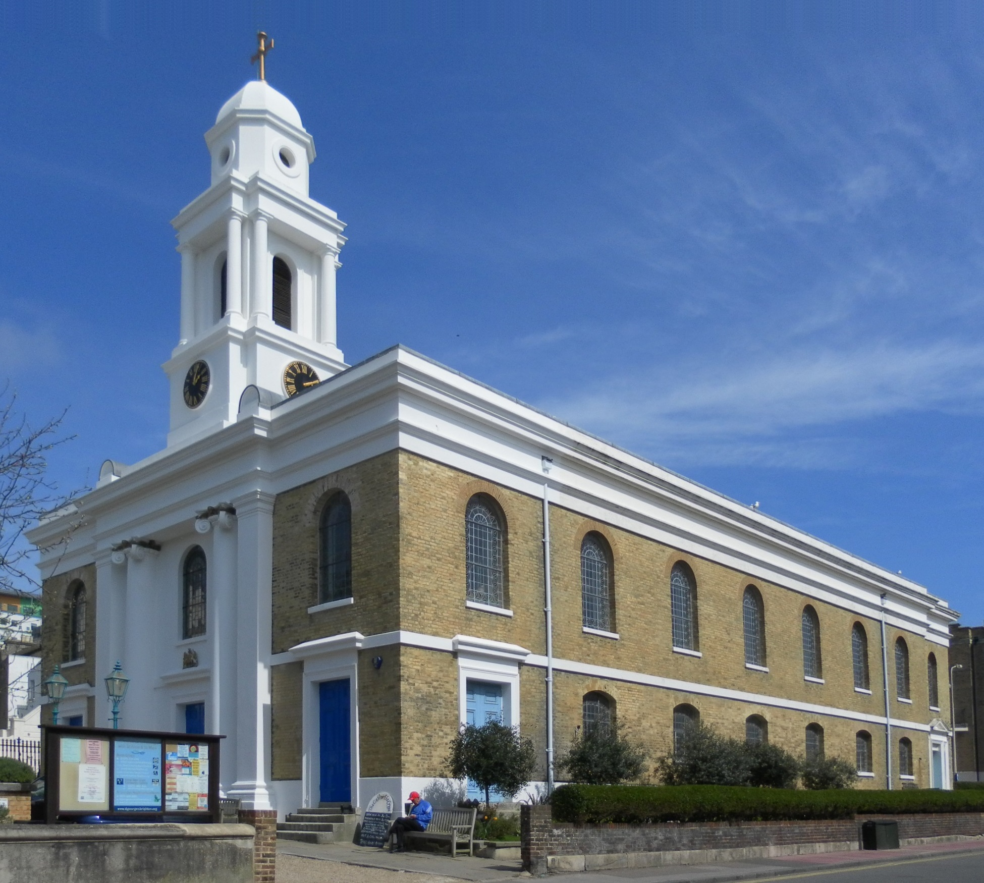 St George's Church, St George's Road/Paston Place, Kemptown, Brighton, City of Brighton and Hove, England.